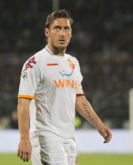 The popular Italian player Francesco Totti.